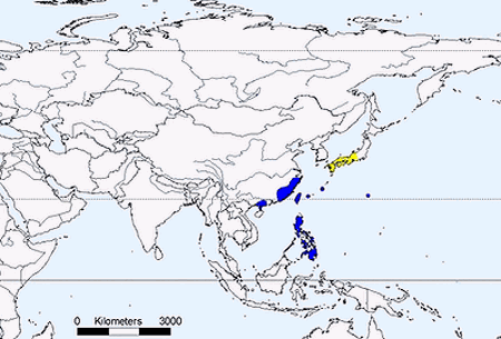 This map shows the distribution of the Japanese Night Heron. The Heron migrates around Southeast Asia